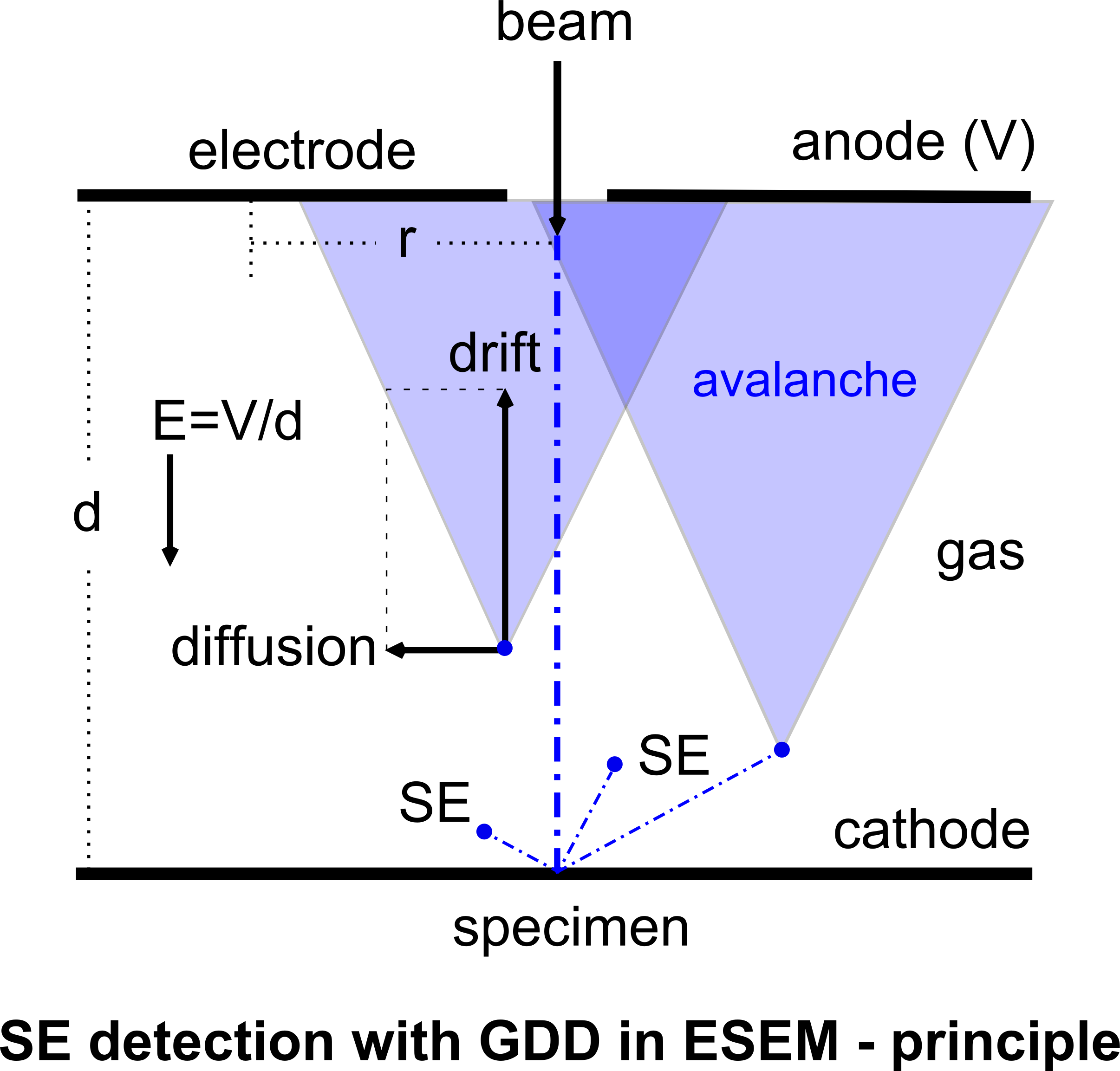 Principle of gaseous detection device (GDD) used for detection and amplification of signals in ESEM. Secondary electrons (SE) from specimen are acted upon by electric field E between cathode and anode electrodes at distance d. Electrons drift towards the anode biased with voltage V, multiplying in an avalanche process by collisions with gas while they diffuse laterally by thermal collisions with gas molecules.